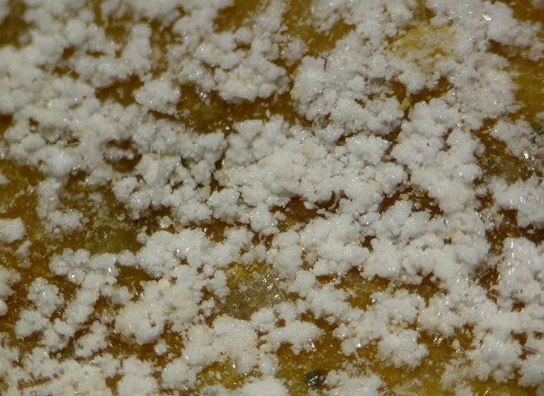 Jurbanite Locality: Le Cetine di Cotorniano Mine (Le Cetine Mine; Cetine Mine; Rosia), Chiusdino, Siena Province, Tuscany, Italy White clusters of Jurbanite crystals. Field of view 5 mm. Specimen and photo Leon Hupperichs.